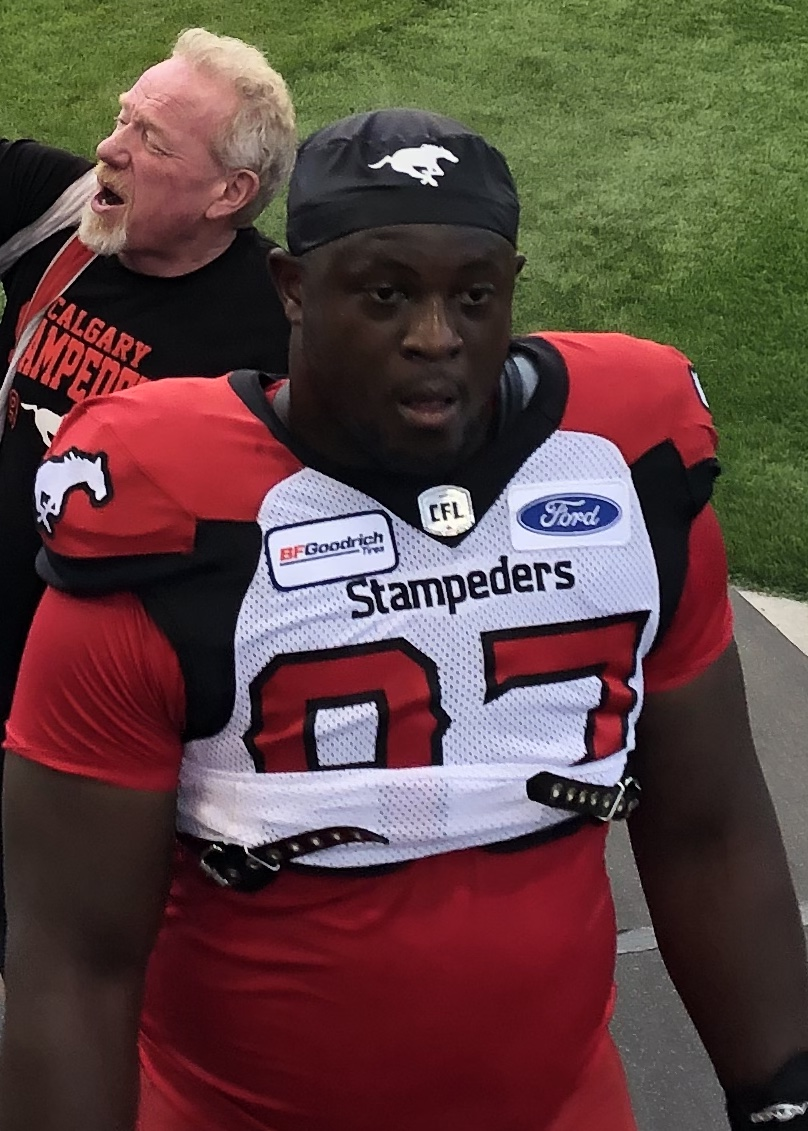 Derek Wiggan, defensive lineman for the Calgary Stampeders.